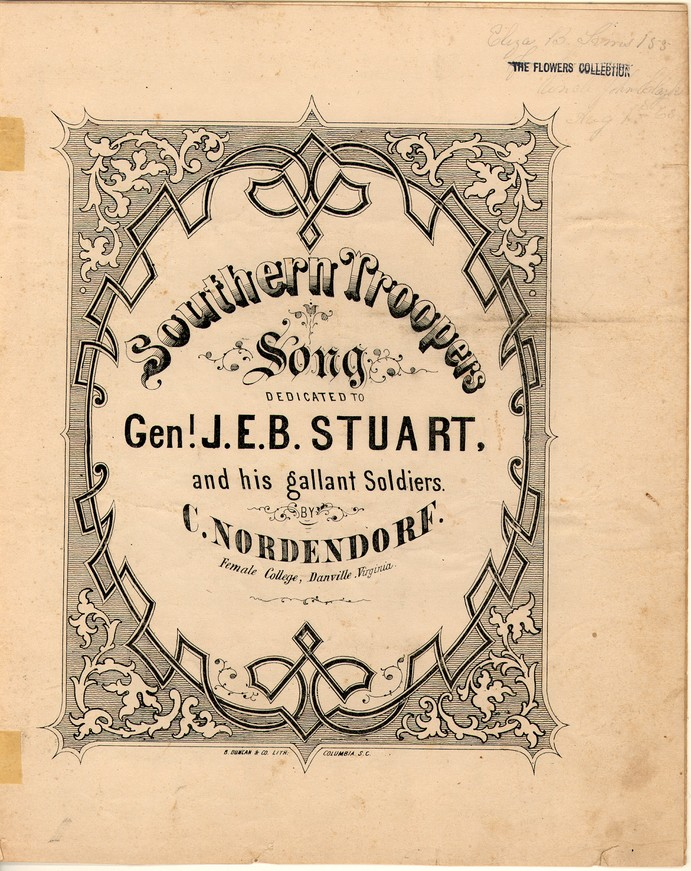 American sheet music with the cover, "Southern Troopers Song Dedicated to Gen'l. J. E. B. Stuart and his gallant Soldiers." Library of Congress, Washington, D. C.